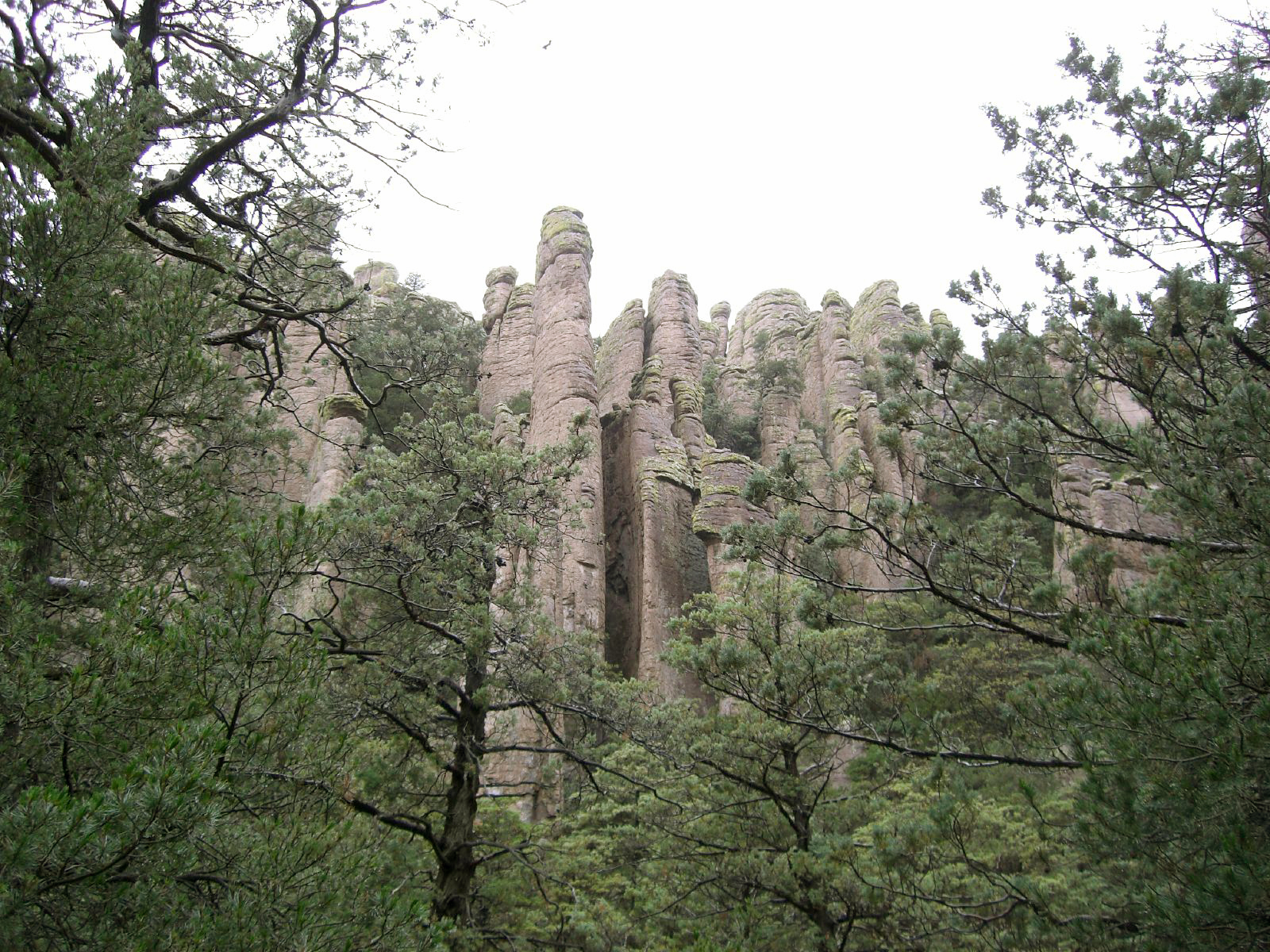 Cupressus arizonica forest with Pinus discolor understorey, Taylor Place, Chiricahua National Monument, Arizona 32°1'47"N 109°18'56"W, 1900m altitude.